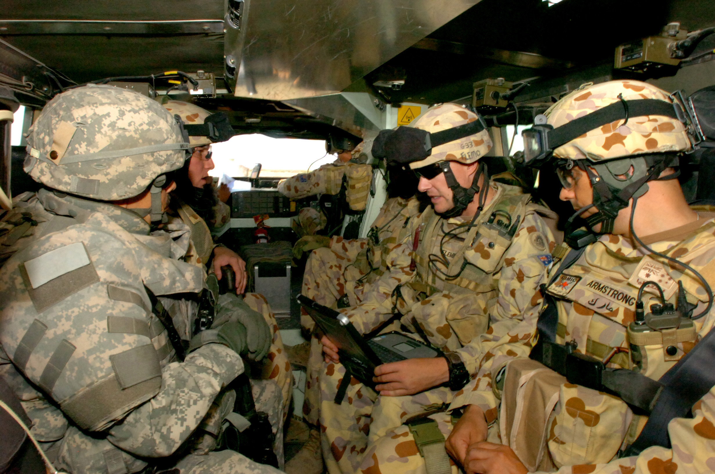 U.S. Army Lt. Col. Jorge Milla, deputy commander of the 358th Civil Affairs Brigade National Vocational Technical Team, rides in the back of an Australian bushmaster armored mobility vehicle on the way to a vocational/technical school in Nasiriyah, Iraq, during a site visit to assess the progress of the school Sept. 29, 2007.